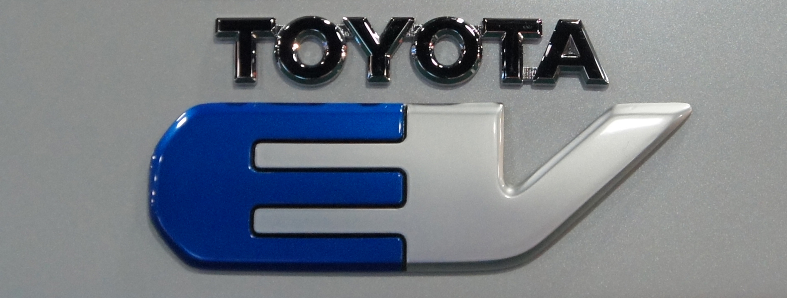 Toyota EV badge used in the RAV4 EV prototype (demonstrator) 2012 Washington Auto Show.